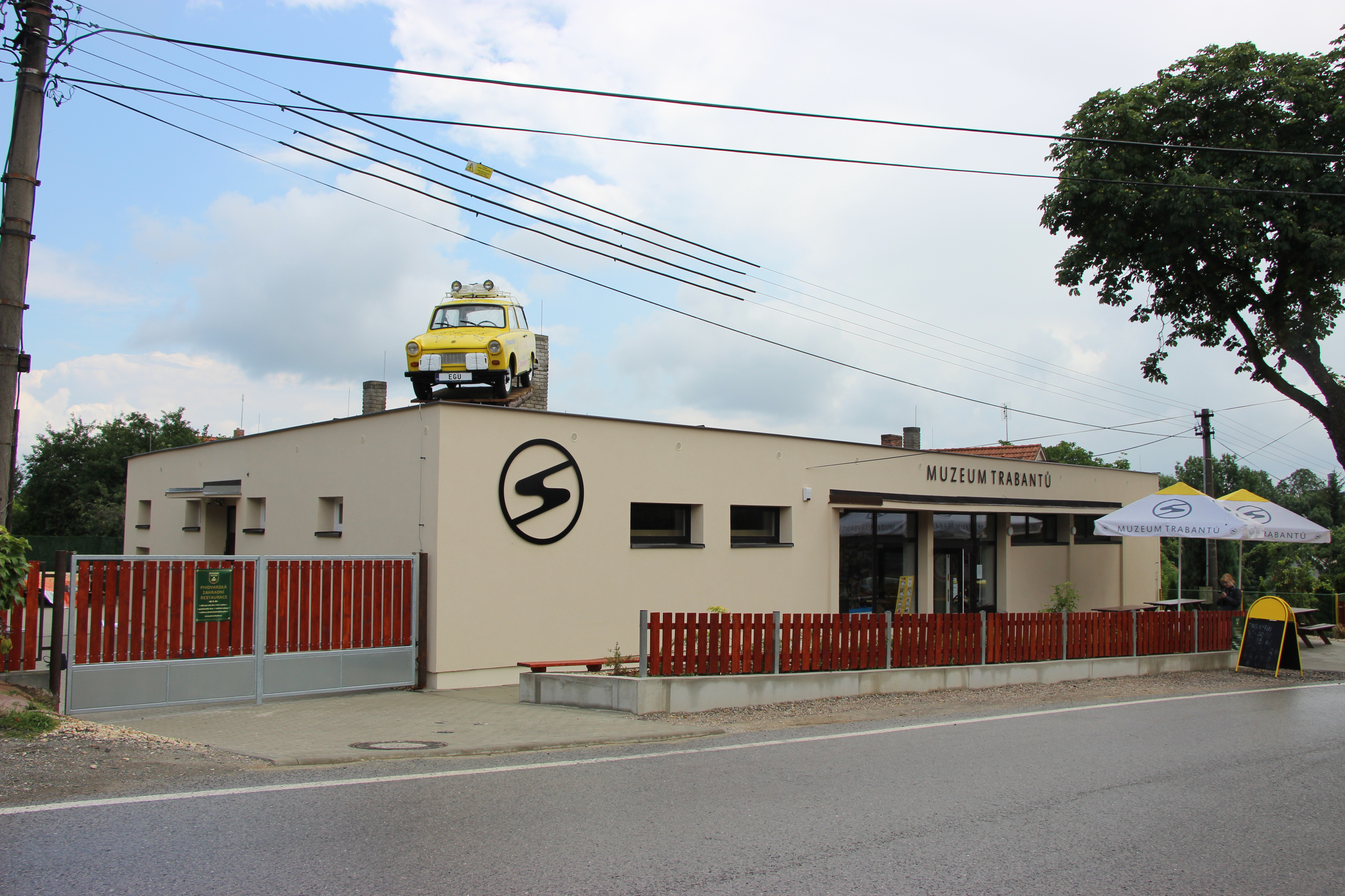 Nová Ves pod Pleší - Příbram District - Museum of Trabants